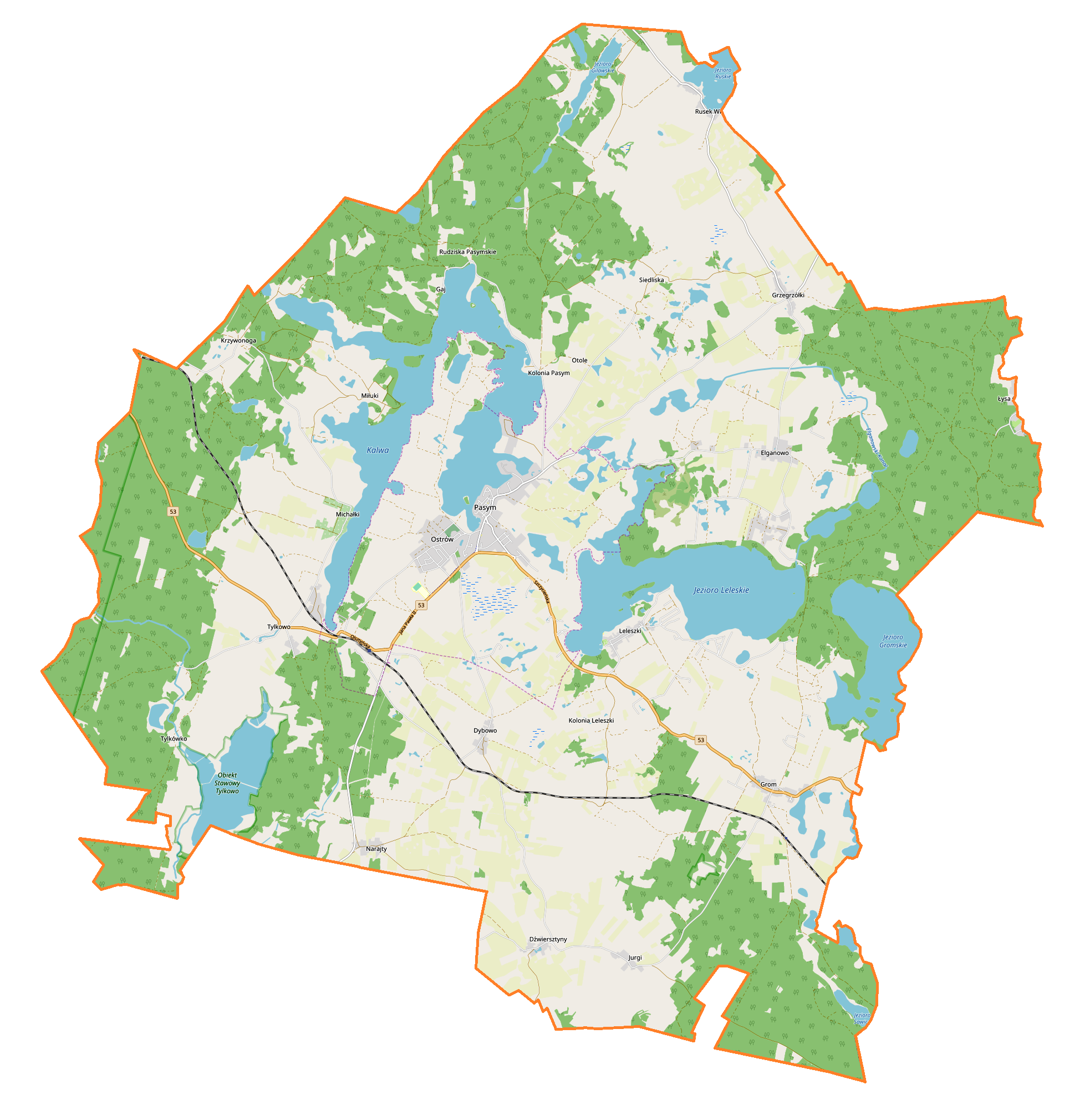 Location map